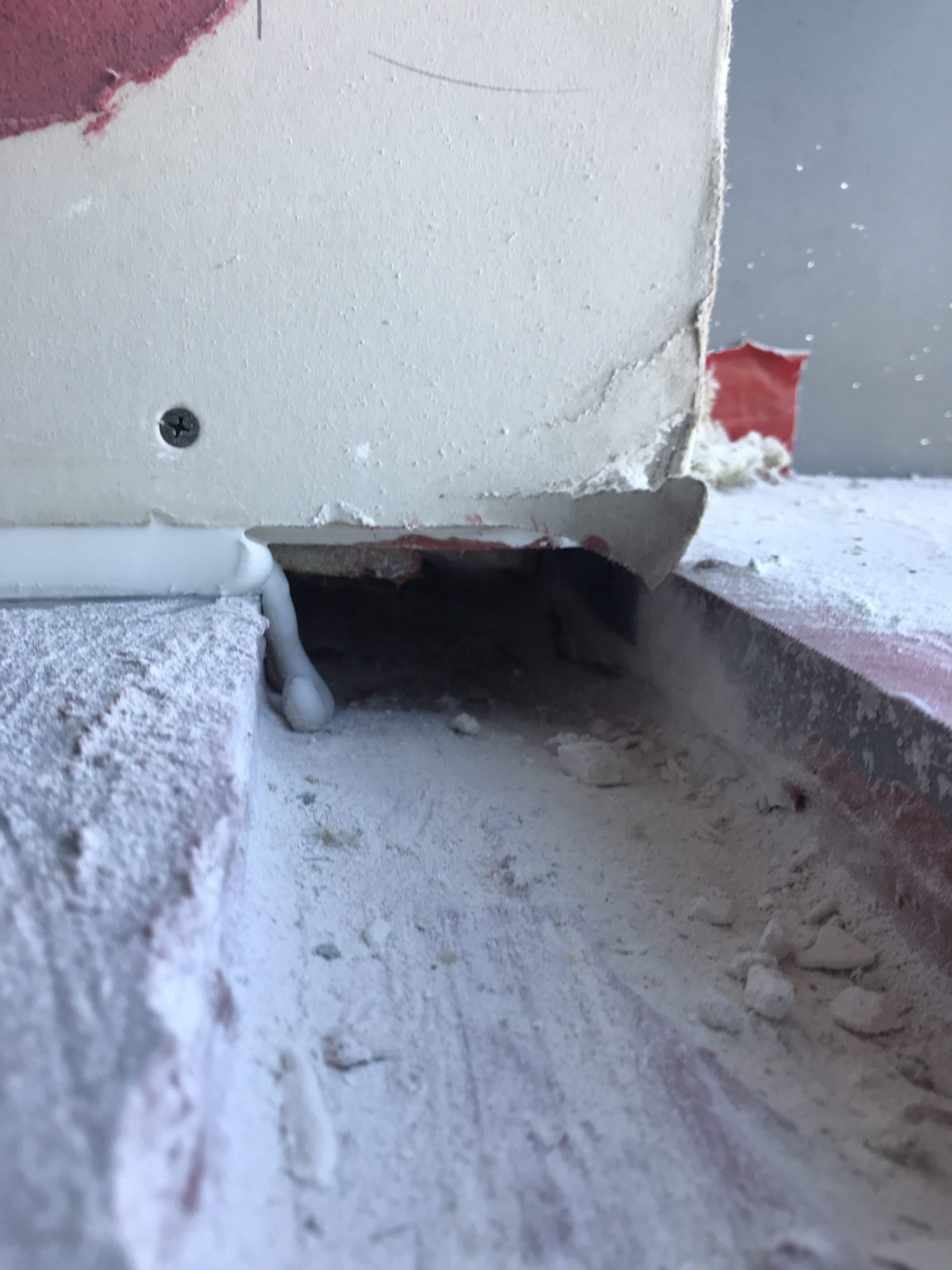 Small gaps, such as this opening at the base of a stud wall, can greatly decrease the STC rating of a partition